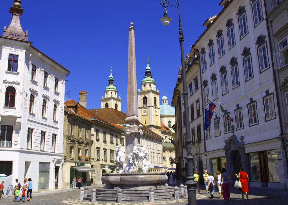 Ljubljana. Town Square with a replica of the Robba fountain and St. Nicholas Cathedral in the background